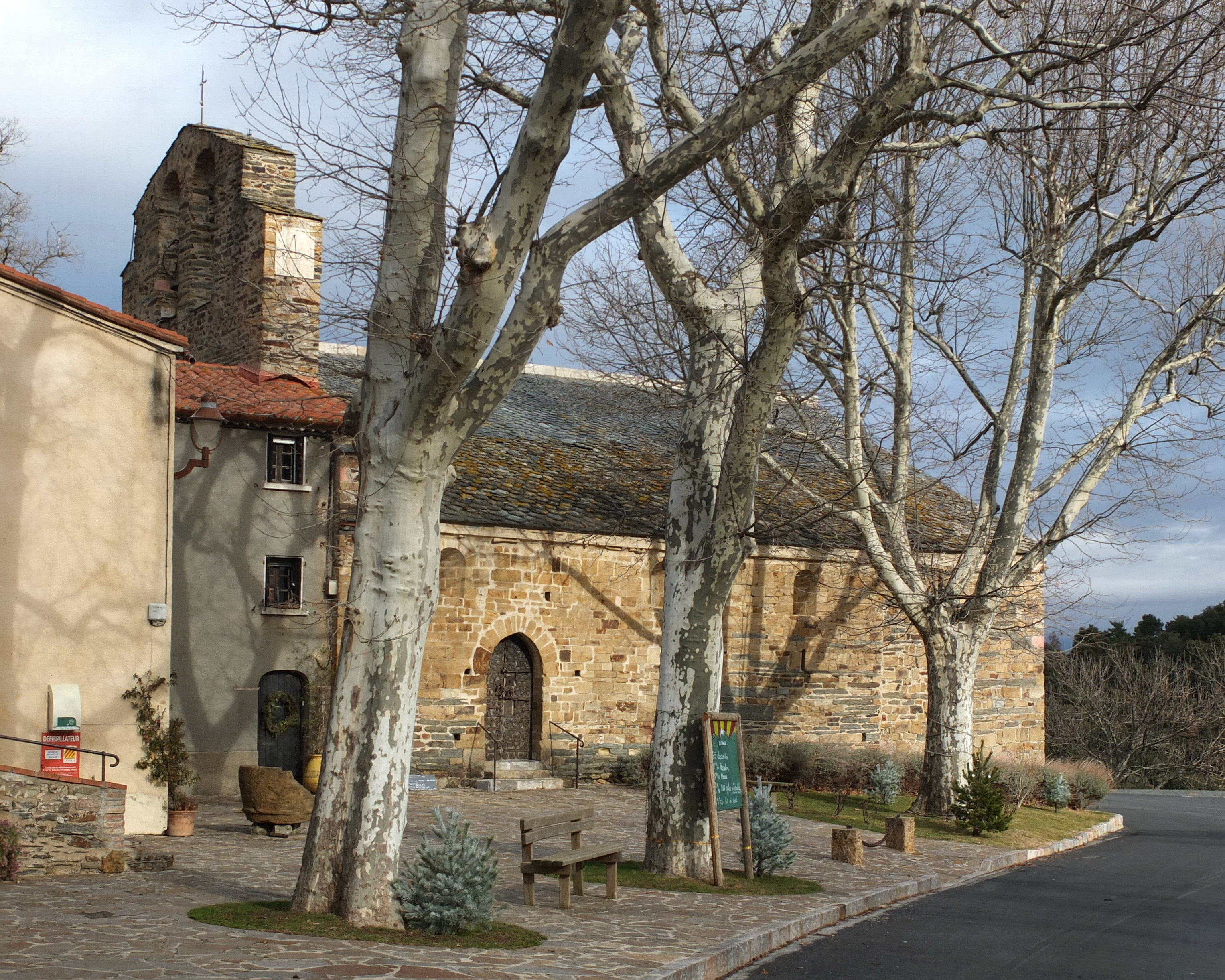 Romanesque "Chapelle de la Trinité de Prunet-et-Belpuig", Roussillon, France (South view).